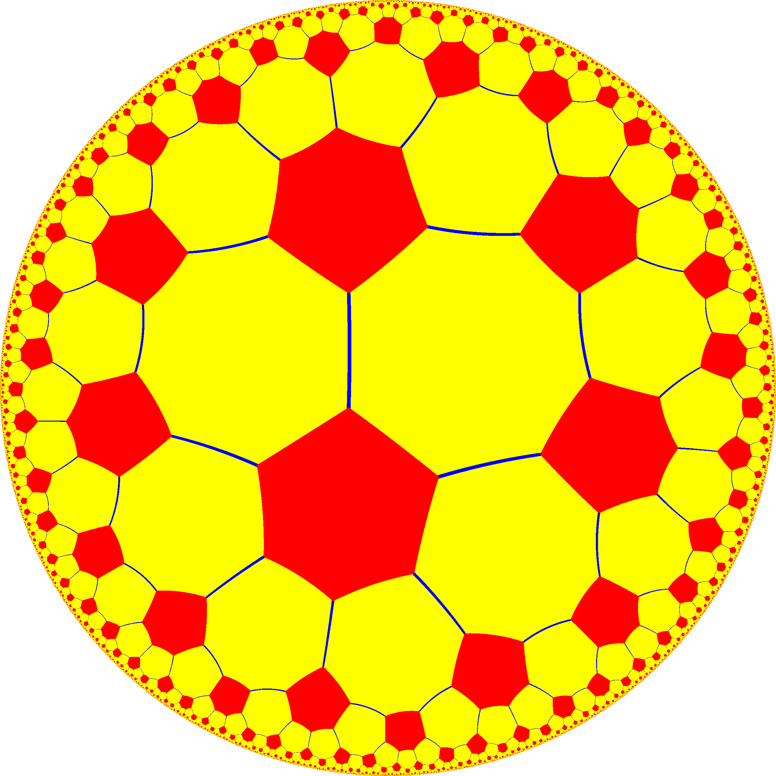 Uniform tiling of hyperbolic plane, x4x6o. Generated by Python code at User:Tamfang/programs. Equivalent: Dual